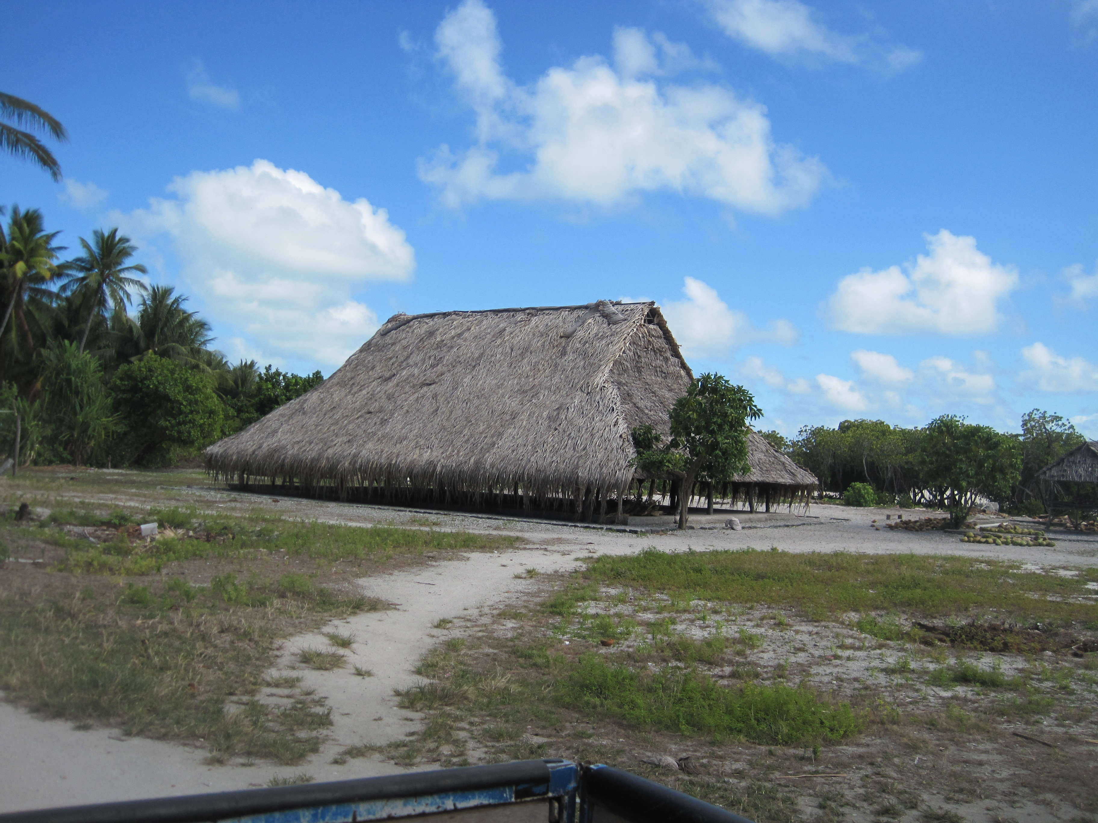 Maneaba in Abemama, Kiribati